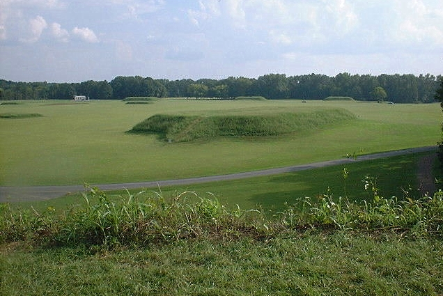 Moundville Archaeological Site in Moundville, Alabama. View of site from top of mound B, the tallest mound.